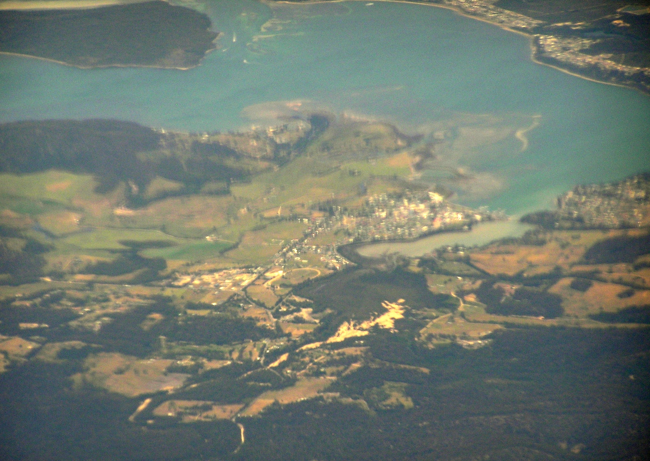 St Helens Tasmania from the east aerial view